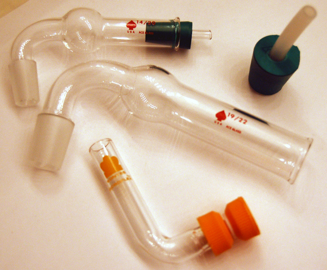 A variety of different drying tubes. From top to bottom:*A miniscale standard taper 14/20 bent drying tube with 1-hole stopper in place.*A miniscale standard taper 19/22 bent drying tube with 1-hole stopper aside.*A microscale 13-425 threaded drying tube with PTFE connecter attached.